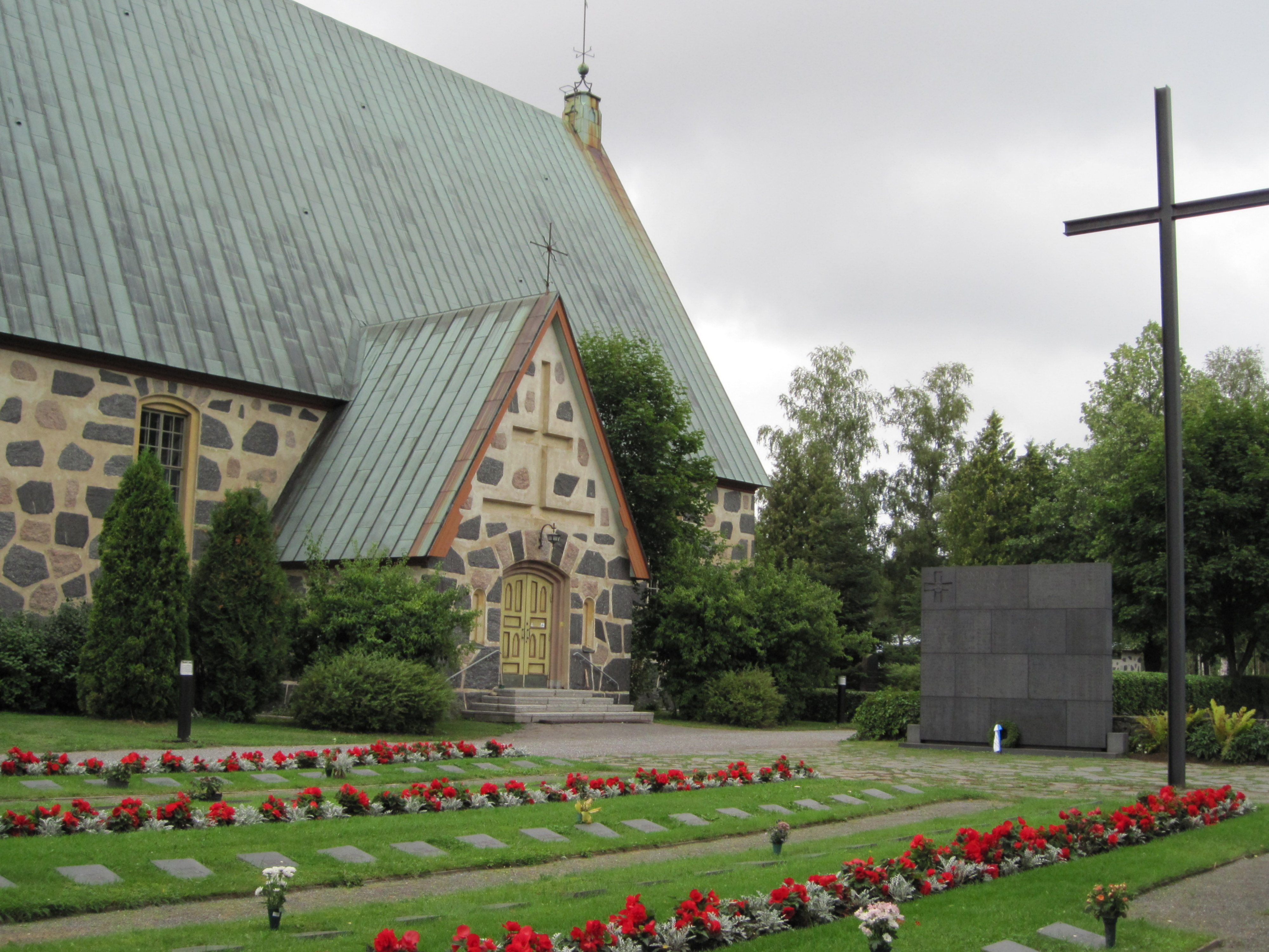 Military cemetary at church in Noormarkku, Finland